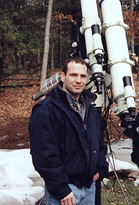 Picture of Robert Gendler, amateur astronomer, from the web site of Robert Gendler.